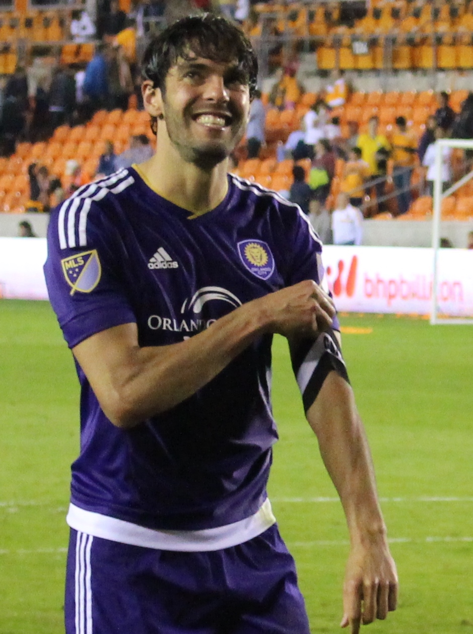 Kaká at the match Houston Dynamo - Orlando City (0-1) on 13 March 2015.